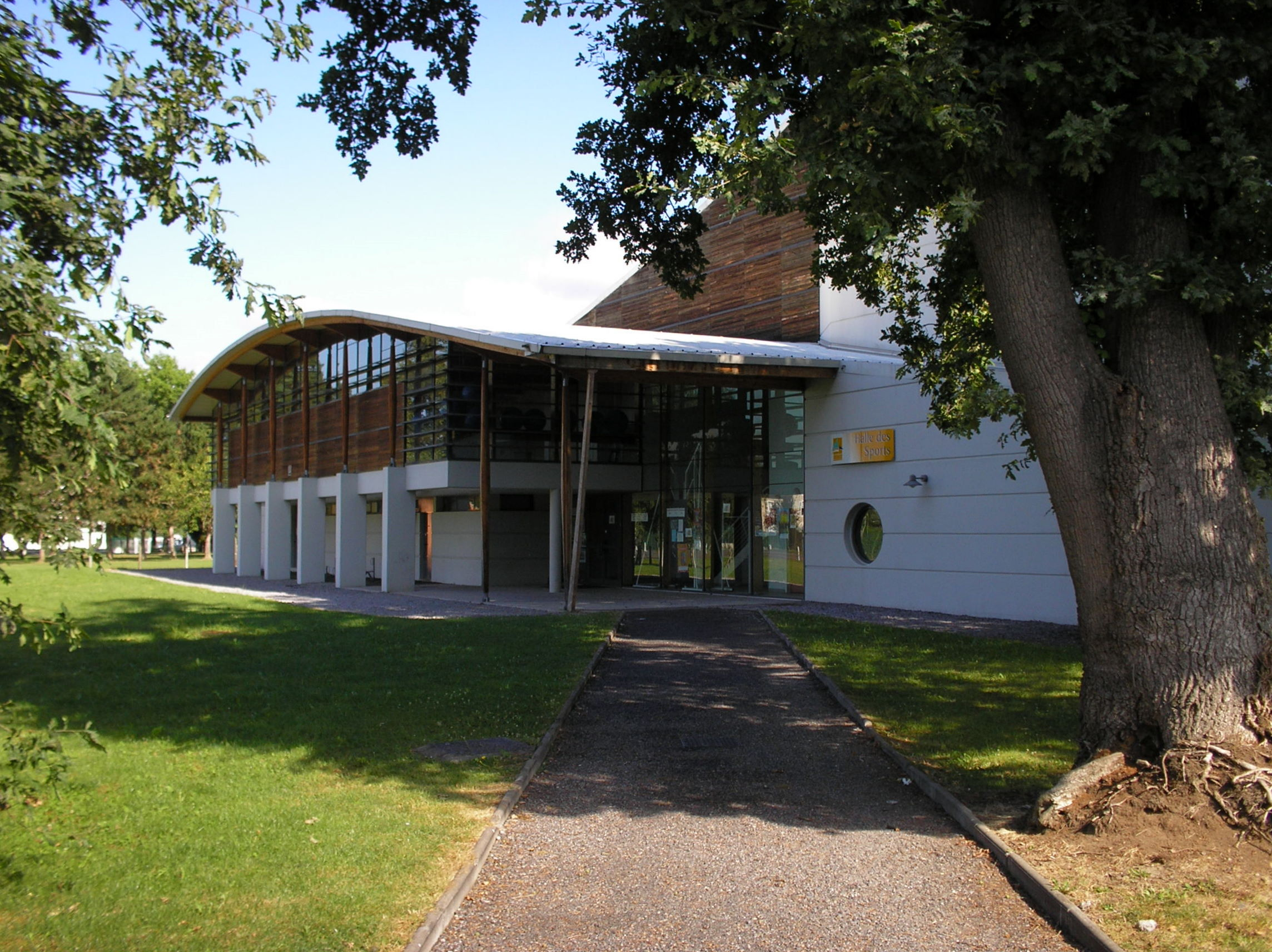 UPPA Sport hall in Pau, France